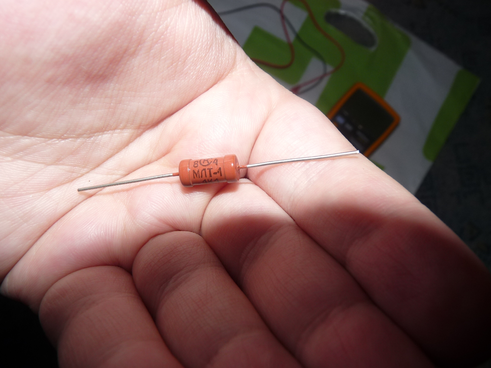 Old USSR resistor «MLT-1» Resistance: 1.1 kΩ Power dispassing: 1 W Voltage: 660 V